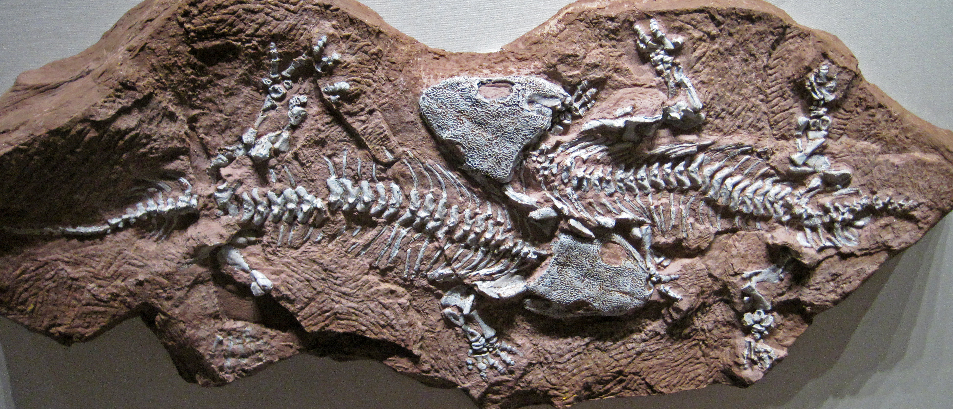 The "Tambach lovers", a pair of Seymouria sanjuanensis from the Tambach Formation of Germany. This is a cast of the original fossil displayed at the Carnegie Museum of Natural History in Pittsburgh, Pennsylvania, USA